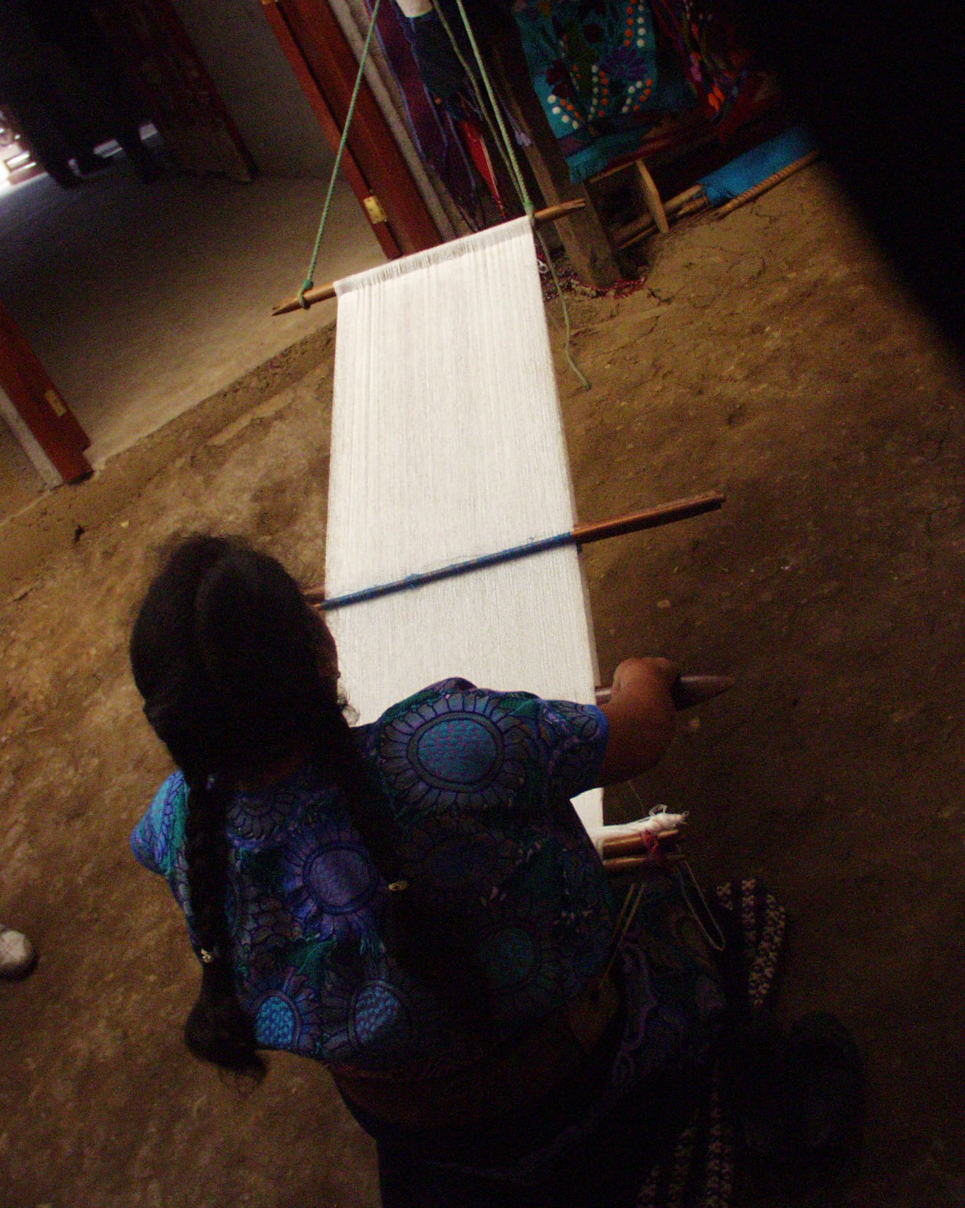 Handweaving in Zinacantán, Chiapas, Mexico